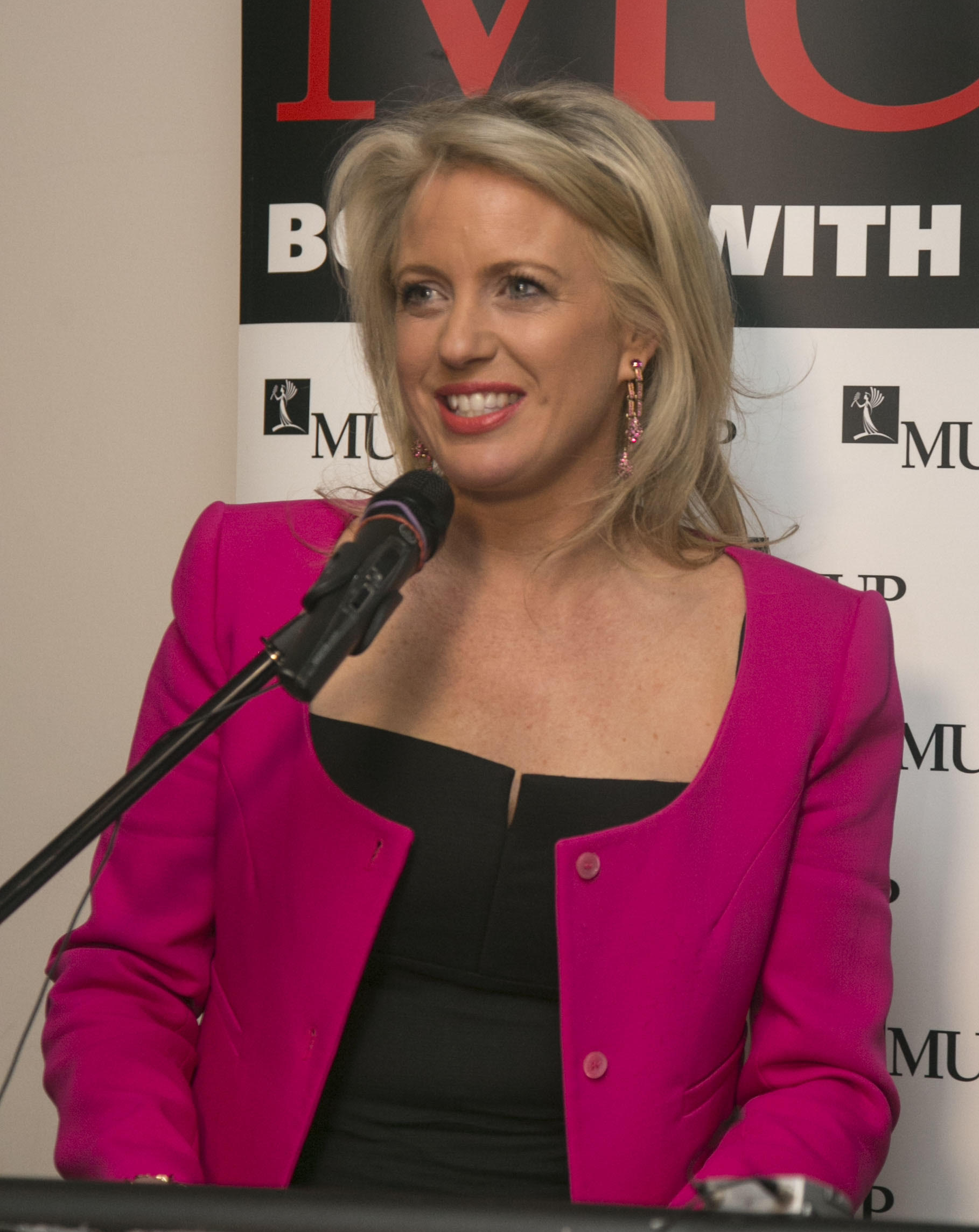 Chloe Shorten speaking at an event for Our Watch. Parliament House, Canberra